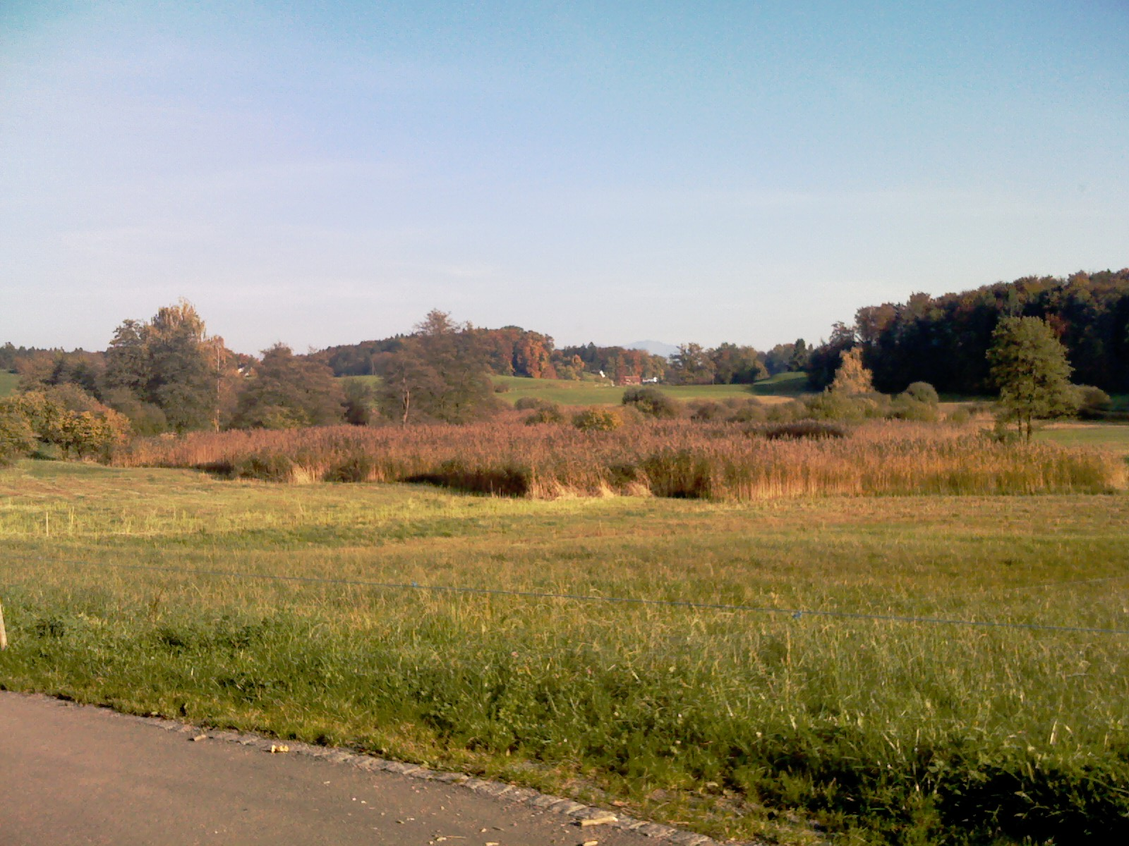 Uetziker Riet in Hombrechtikon, Canton of Zurich, SwitzerlandEsperanto: Marcxo de Ützikon en Hombrechtikon, Kantono Zuriko, Svislando